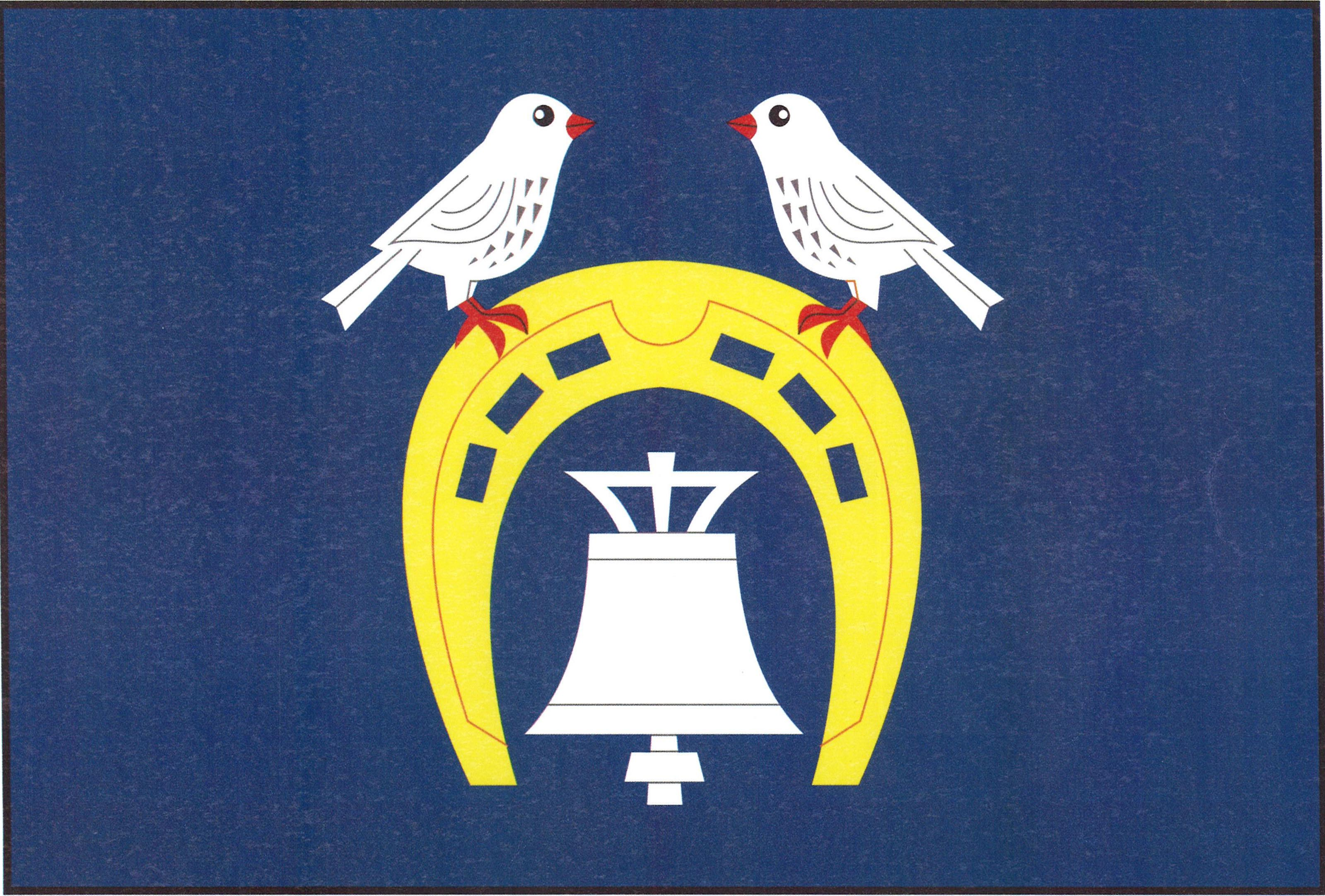 Flag of Kvíčovice, Domažlice District